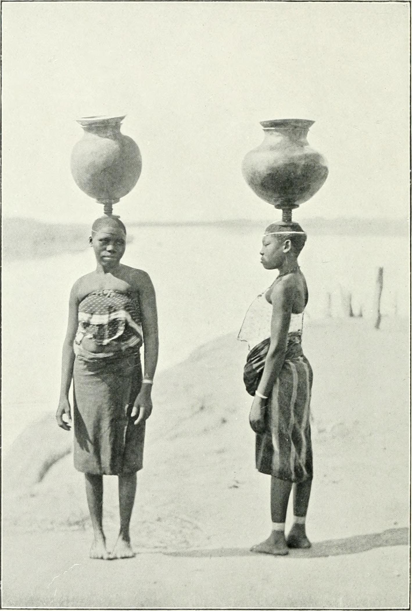 Title: The natives of British Central Africa Year: 1906 (1900s) Authors: Werner, Alice, 1859-1935 Subjects: Ethnology Publisher: London : A. Constable and Company, ltd. Text Appearing Before Image: ' Text Appearing After Image: WoMKN Carrying Watkr-jars, Chiromo Zbe IRative IRaces of the Britisb Empire THE NATIVES OF BRITISH CENTRAL AFRICA BY A. WERNER WITH THIRTY-TWO FULL-PAGEILLUSTRATIONS LONDON ARCHIBALD CONSTABLE AND COMPANY, LTD. 1906 Edinburgh : T. and A. Constable, Printers to His Majwty IN MEMORIAMJ. R. W. ELMINA, AUGUST l6, 189I . . . Desiderio .Tarn cari capitis. CONTENTS LIST OF PLATES CHAPTER I INTRODUCTORY Geography. Botany: bush-fire. Climate. Fauna : beasts, birds, fisb, insects, i CHAPTER II INHABITANTS Classification of tribes. Physical characters. Keloids and tribal marks. Ear ornaments. Tooth-chipping. Hair, . . 24 CHAPTER III RELIGION AND MAGIC—I Ancestor-worship. Ofterings. Mulungu. Mpambe. Chitowe. Evil spirits. Spirits of the dead. Dreams. Morality, . 46 CHAPTER IV RELIGION AND MAGIC—II Creation. Origin of death. Lake Nyasa. Rain-making. Charms. Witchcraft. Lycanthropy, Divination. Food tabus. Dances, 70 CHAPTER V NATIVE LIFE—I. CHILDHOOD AND YOUTH Villages. Huts. Birth, Naming.nativesofbritish00wern